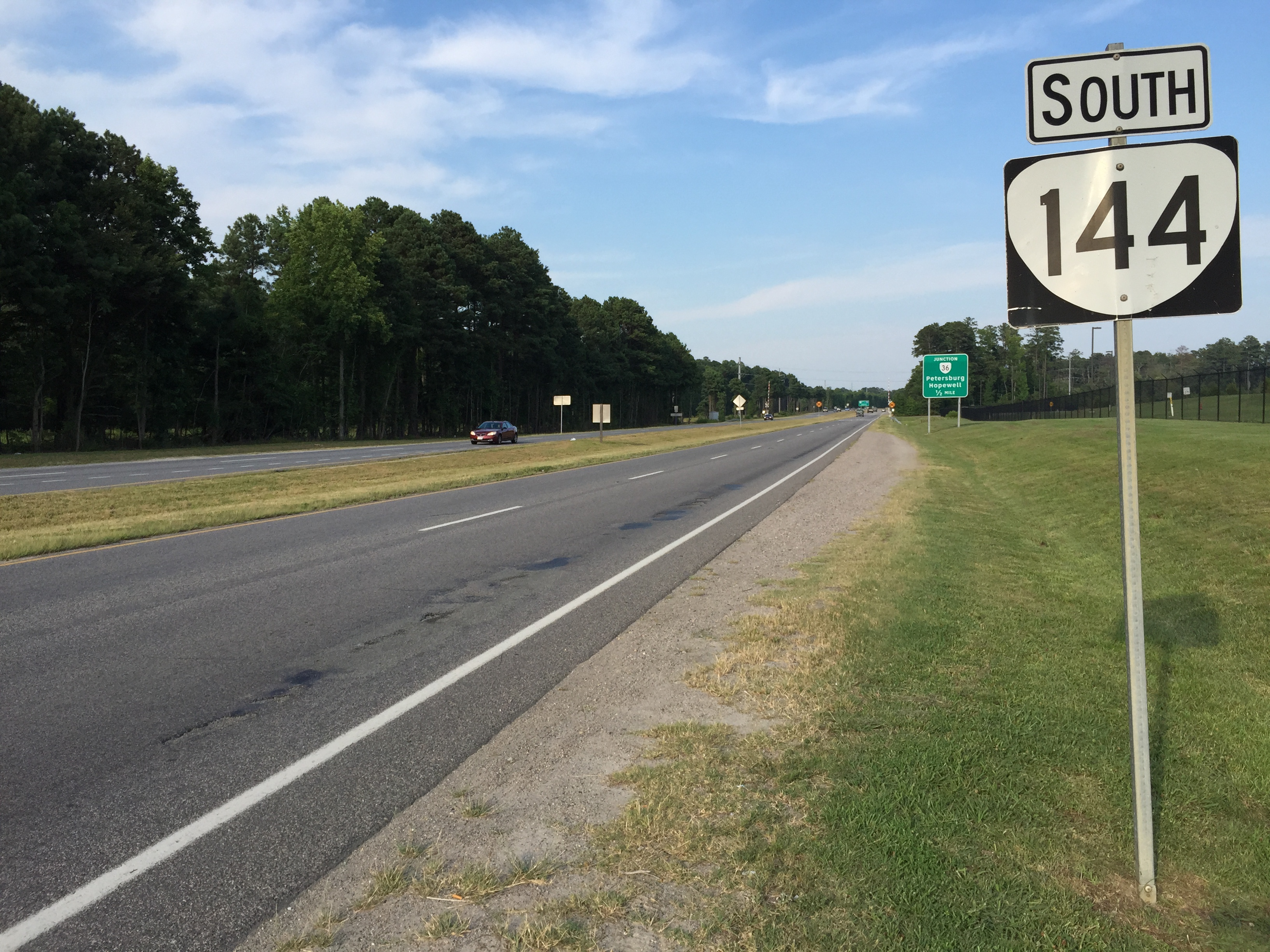 View south along Virginia State Route 144 (Temple Avenue) at Edgewood Road in Fort Lee, Prince George County, Virginia